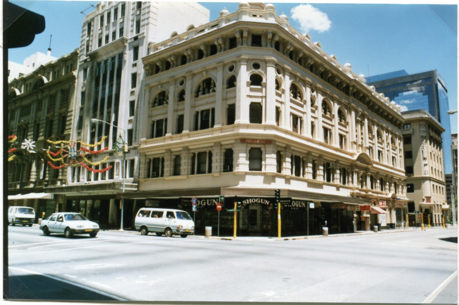 This is the Victory house in Marshallstown Johannesburg South Africa, it is part of the archived works from the Johannesburg Heritage Foundation given to Joburgpedia and other Wikimedia projects.